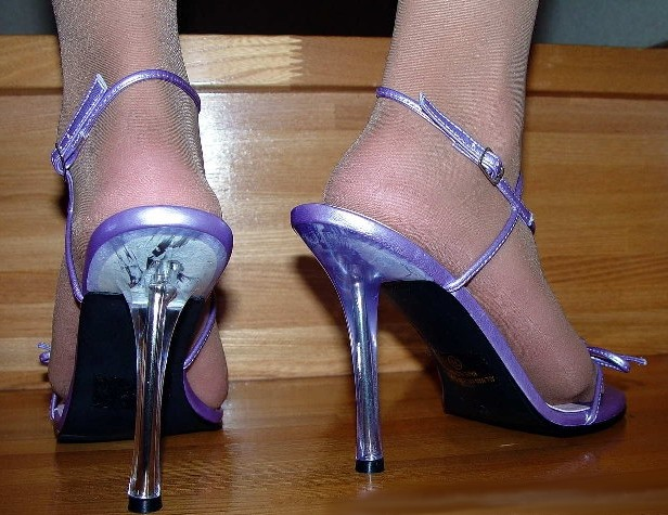 high heele